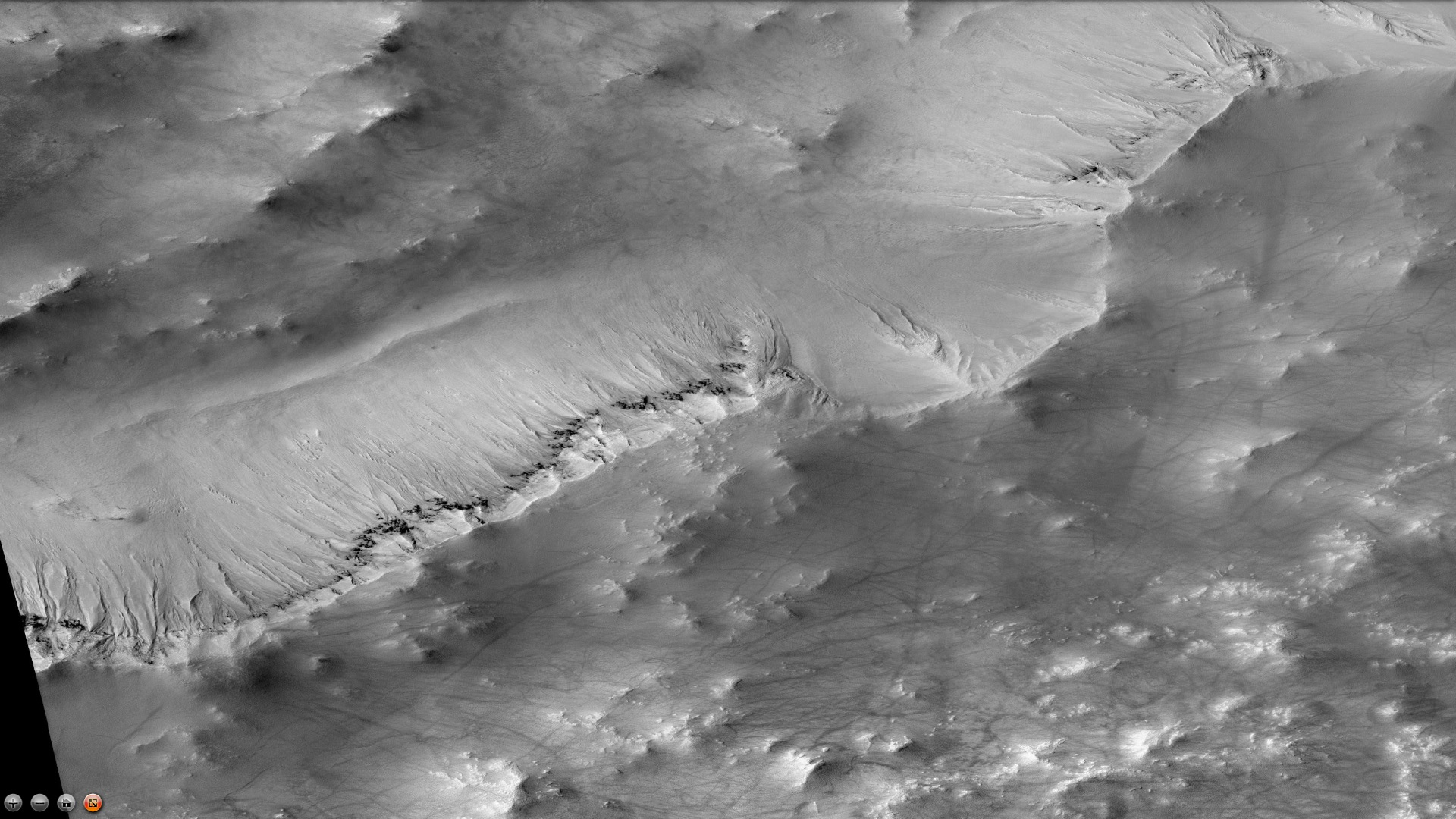 Gullies in Ross Crater, as seen by CTX